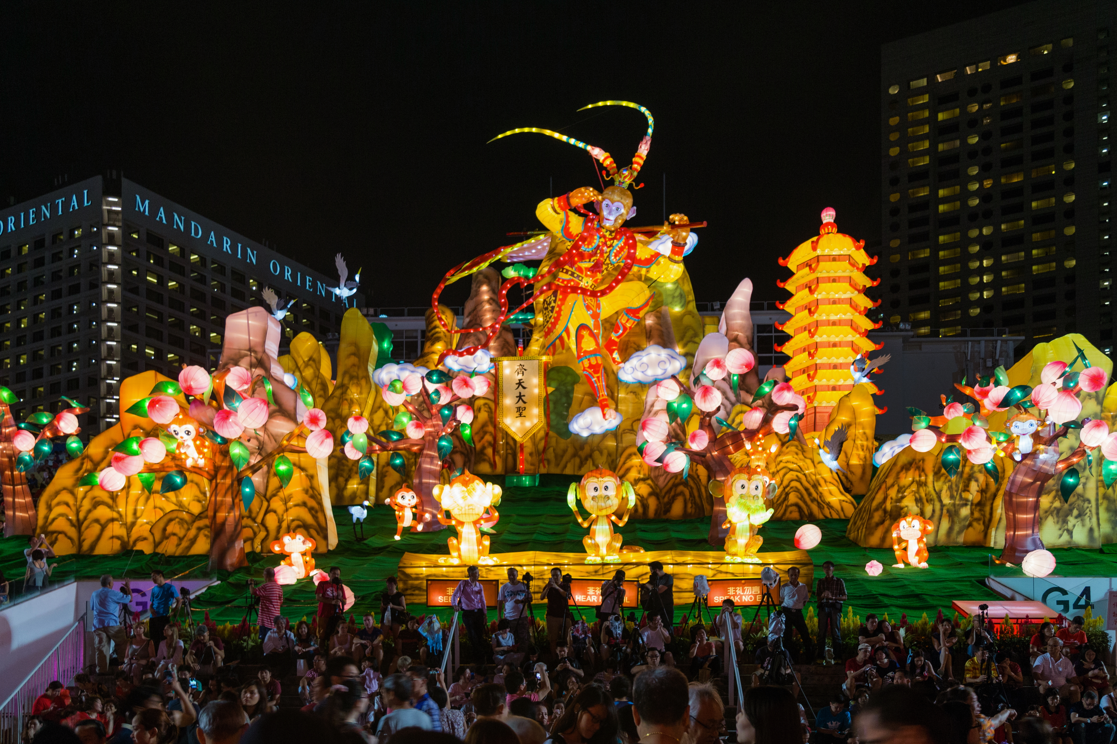 Decorations on the occasion of Chinese New Year - River Hongbao 2016. Downtown Core, Central Region, Singapore.